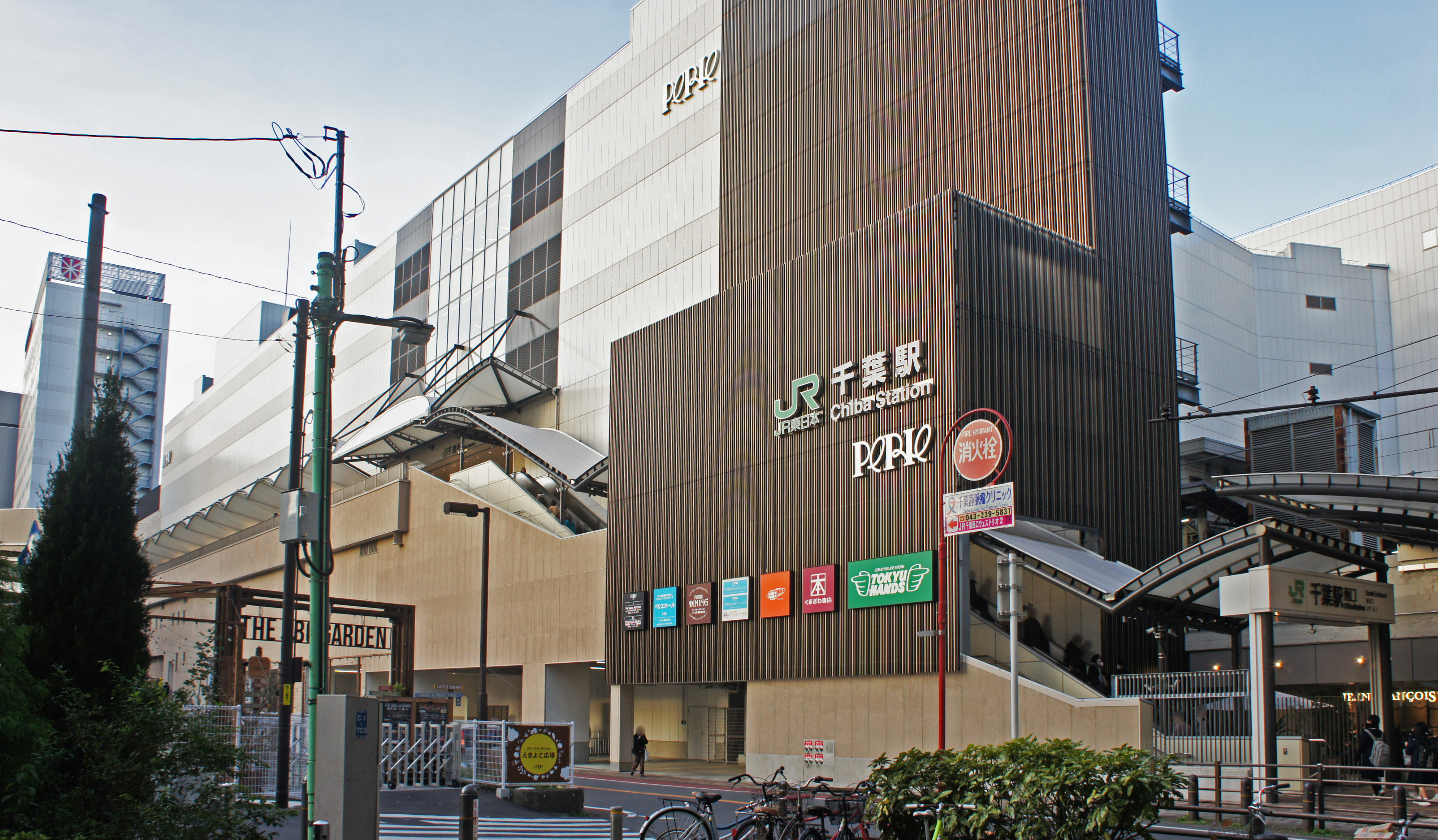 South Exit of JR Chiba Station